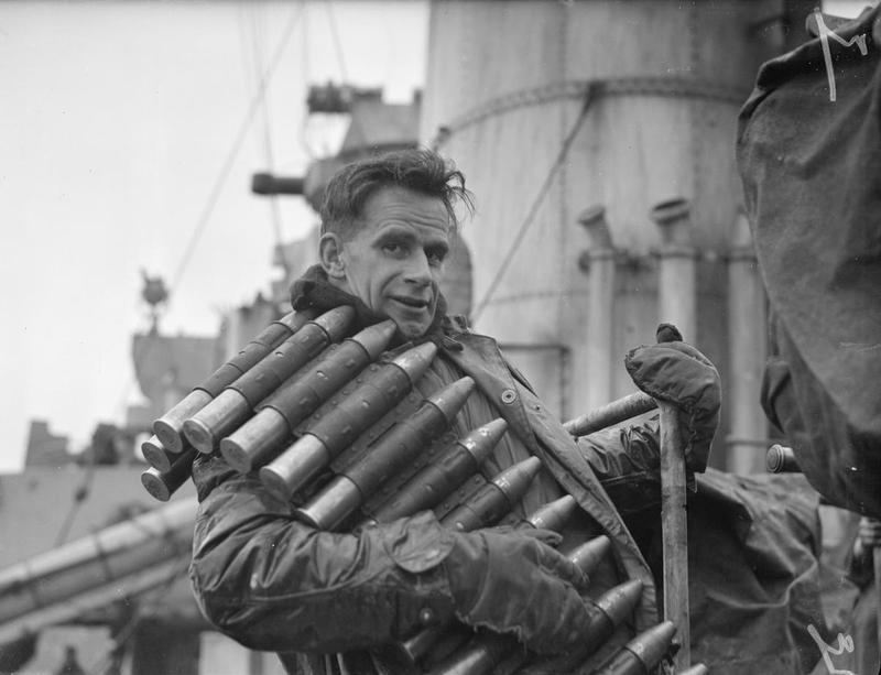 Destroyers Sink Two Enemy Supply Ships Off Brittany. 29 April 1943, Devonport, Hm Destroyers Goathland and Albrighton Carried Out a Surprise Night Action Against a Strongly Escorted German Convoy Off the North Coast of Brittany, on 27 April. Two Enemy Supply Ships Were Torpedoed and Heavily Hit by Gunfire, Both Are Believed Sunk. in Addition Hits With Gunfire Were Made on Two of the Enemy Escorts Which Burst Into Flames and Almost Certainly Sank. An E Boat Was Also Hit and Blew Up. Able Seaman R J Allen, of Truro, Cornwall, one of the gunners of HMS ALBRIGHTON.